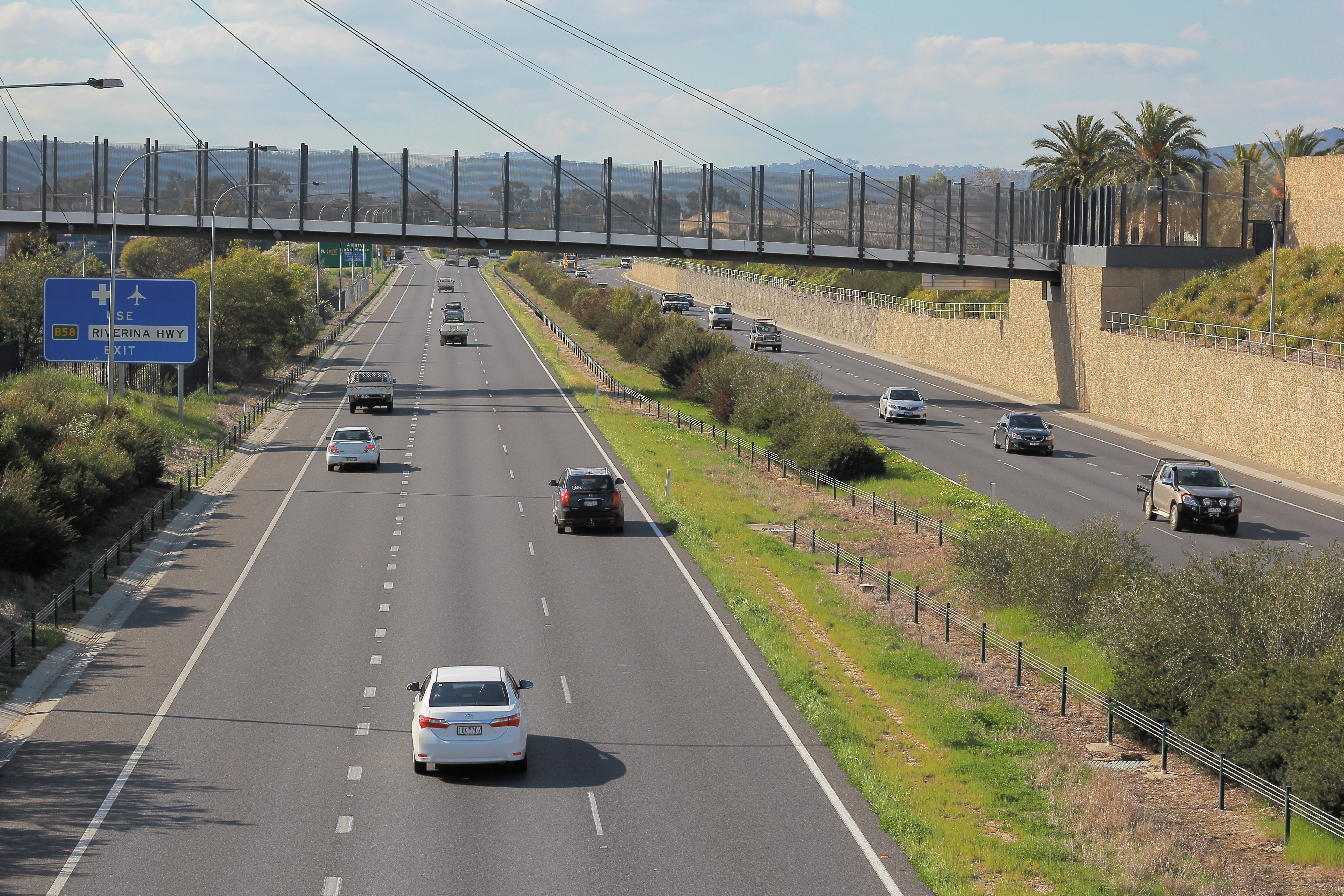 The Hume Freeway bypass at Albury, facing north